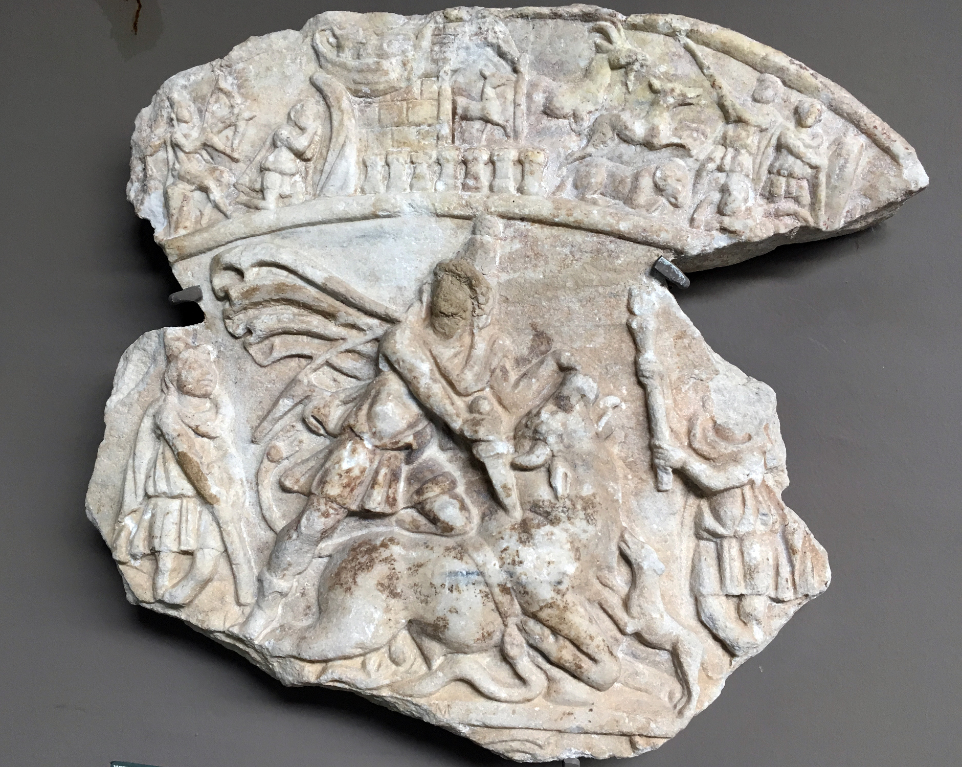 A marble relif of the Indo-Iranian Sun God Mithra, II-III AD Part of the permanent exhibition in the Archeological Museum in Kladovo, Serbia.